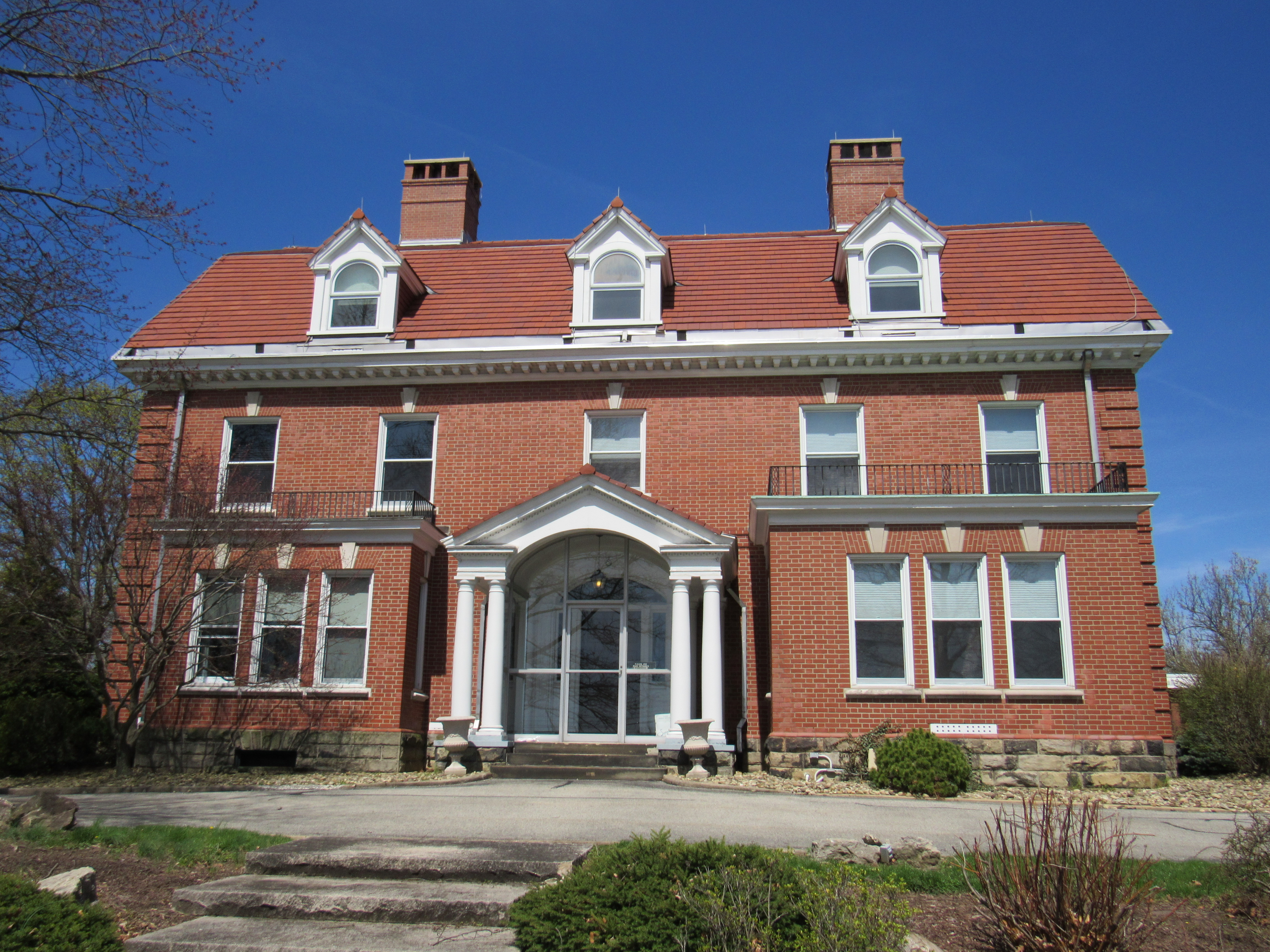 The Pastoral Center of the Catholic Diocese of Greensburg in western Pennsylvania.